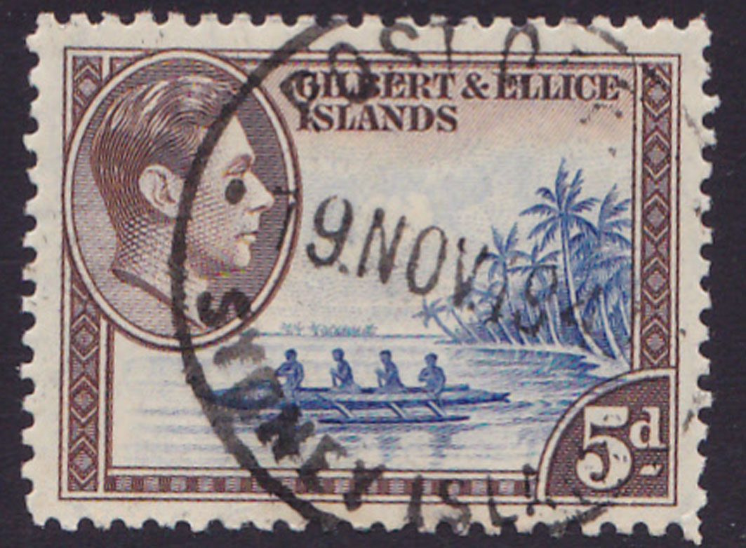 A stamp of the Gilbert and Ellice Islands with postmark of Sydney Island ca 1945 (now Manra Island, Kiribati and uninhabited)